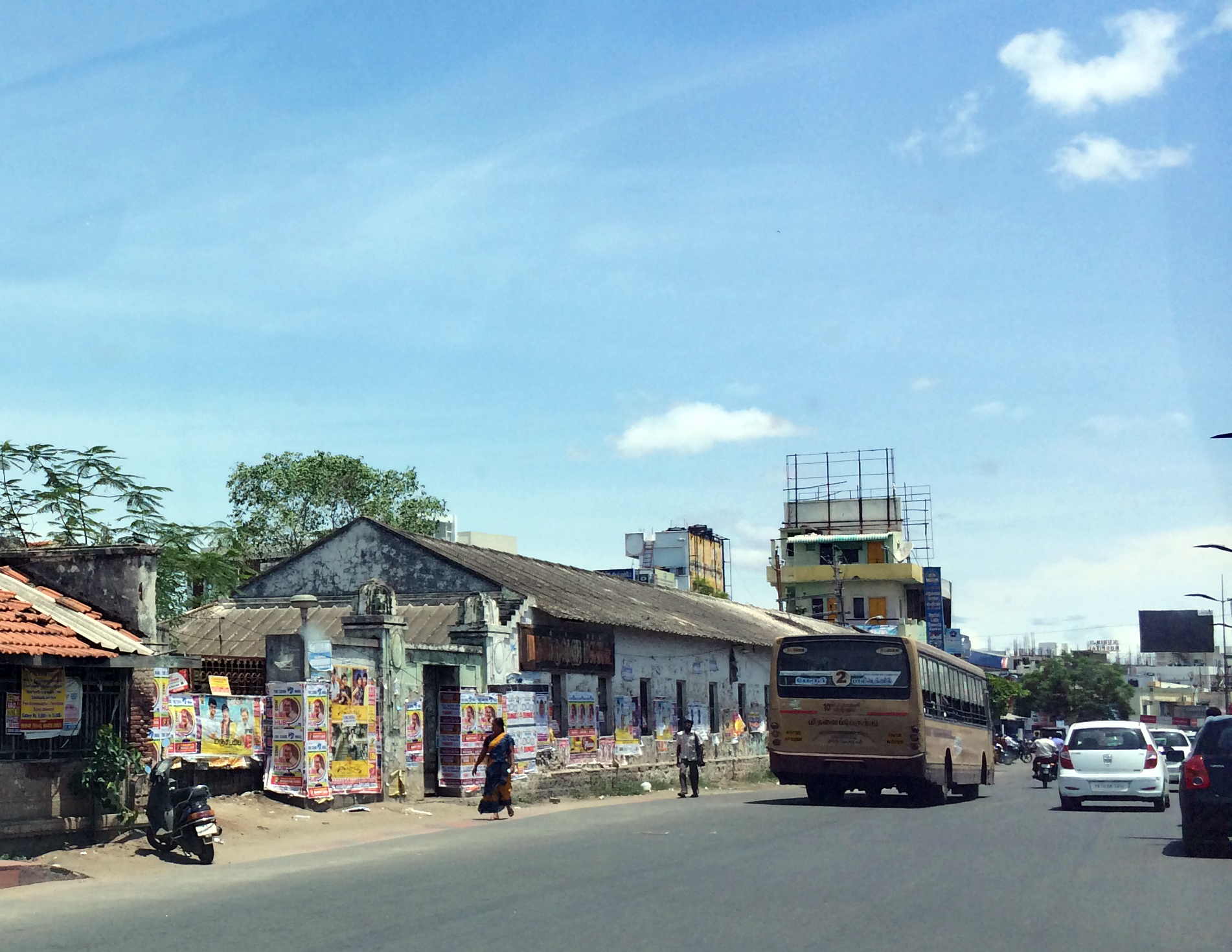 The now defuanct Radhakrishna Mills gate, Peelamedu, Coimbatore